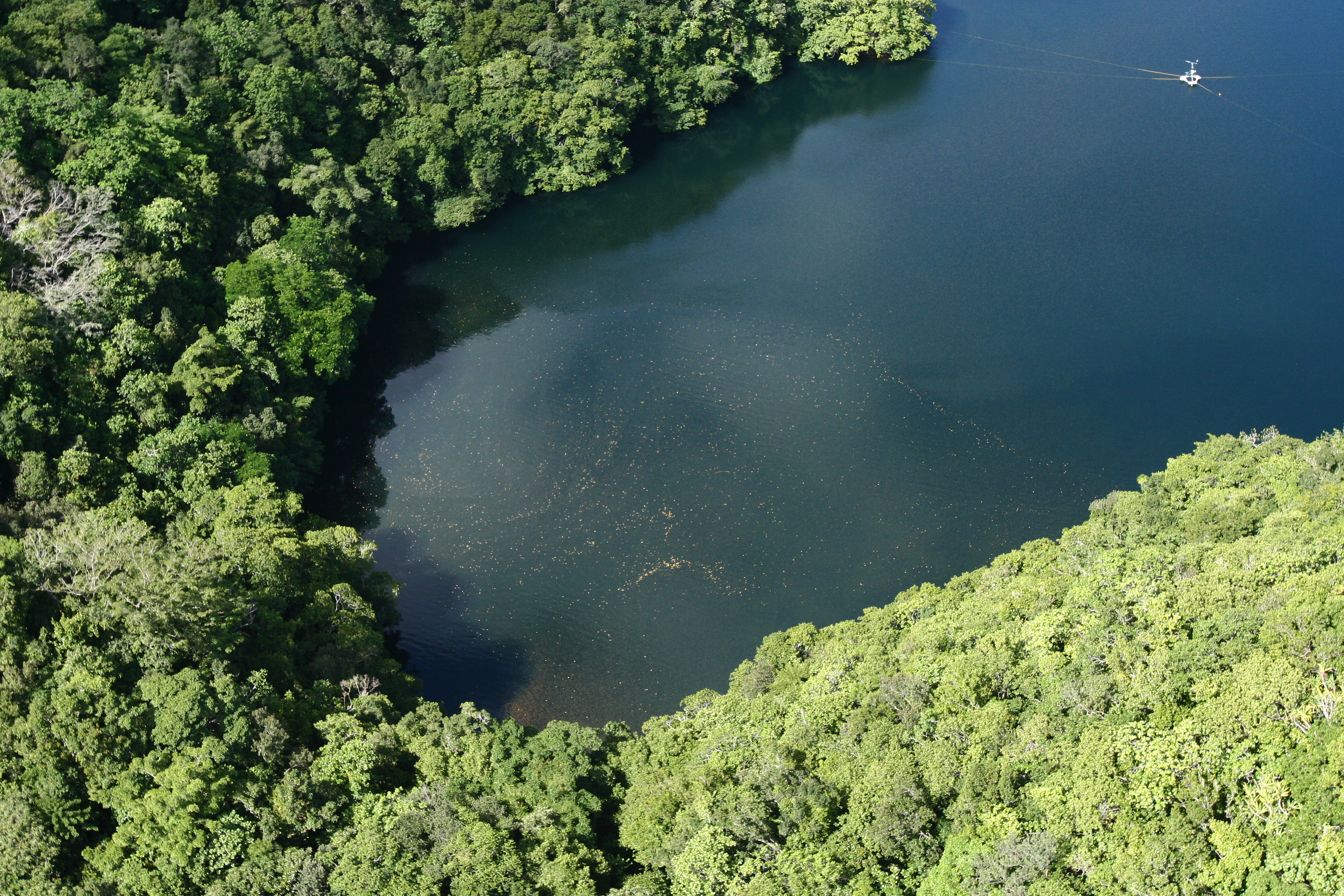 Jellyfish Lake, with a focus on its east end. The numerous bright dots visible on and below the surface of the lake are the millions of jellyfish that inhabit its waters, which migrated to the eastern end of the lake during morning hours.